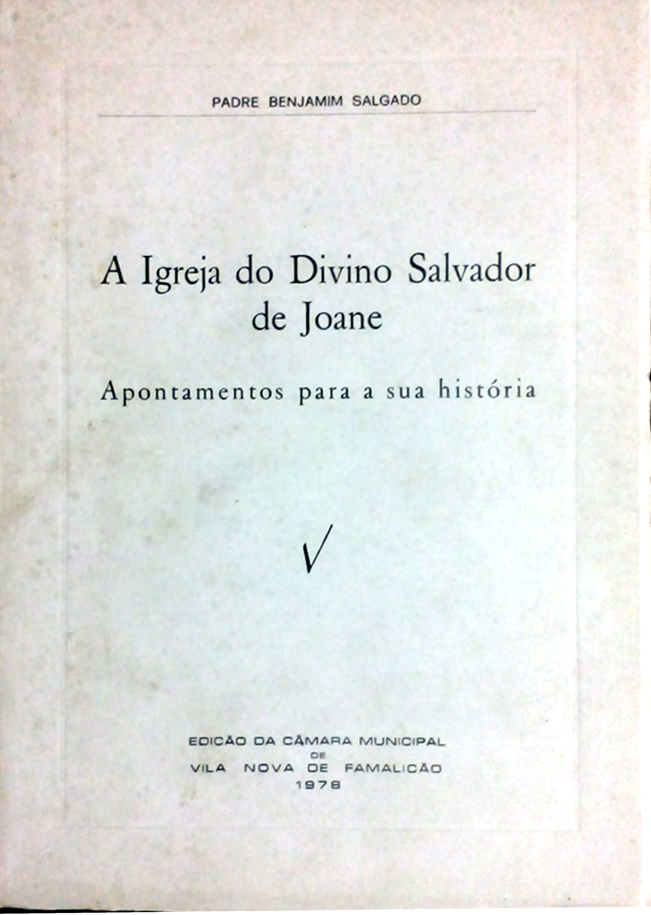 Joane Portuguese Heritage